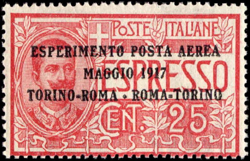 World's first airmail stamp issued by Italian postal administration for Troins-Rome flight - This is a 1903 express delivery stamp overprinted for the special flight in 1917.